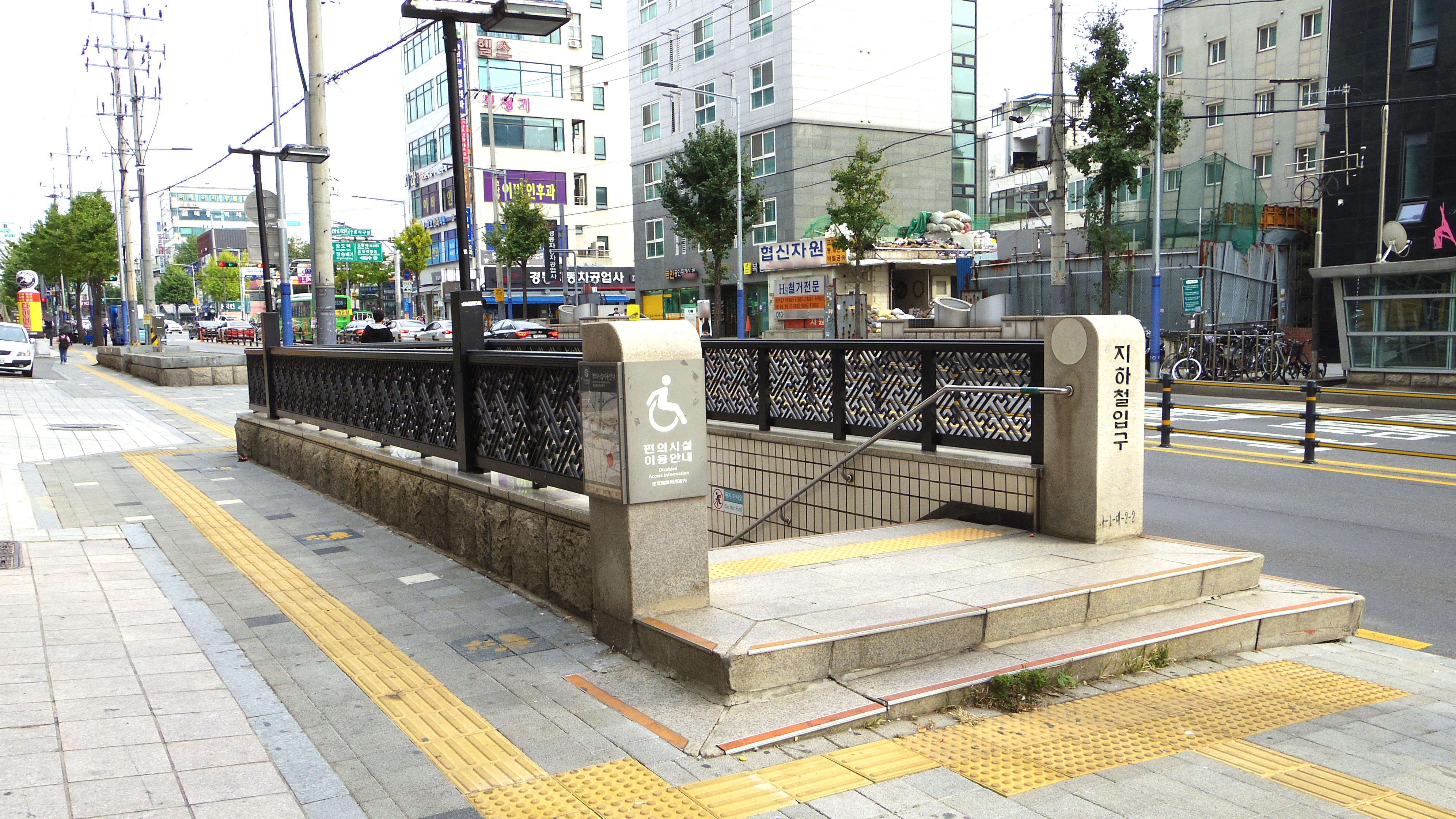 The no.4 entrance to Sindaebangsamgeori Station on the Seoul Metro Line 7 in Dongjak-gu, Seoul, Republic of Korea(South Korea)